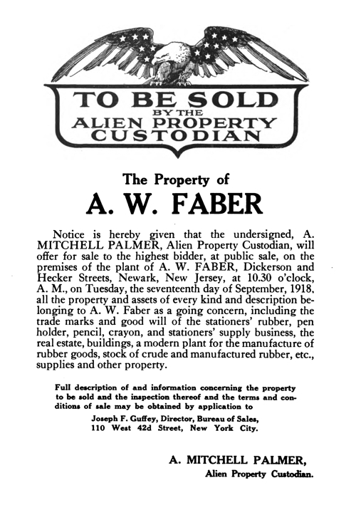 Office of Alien Property Custodian sale notice, published in The American Stationer and Office Outfitter, September 1918